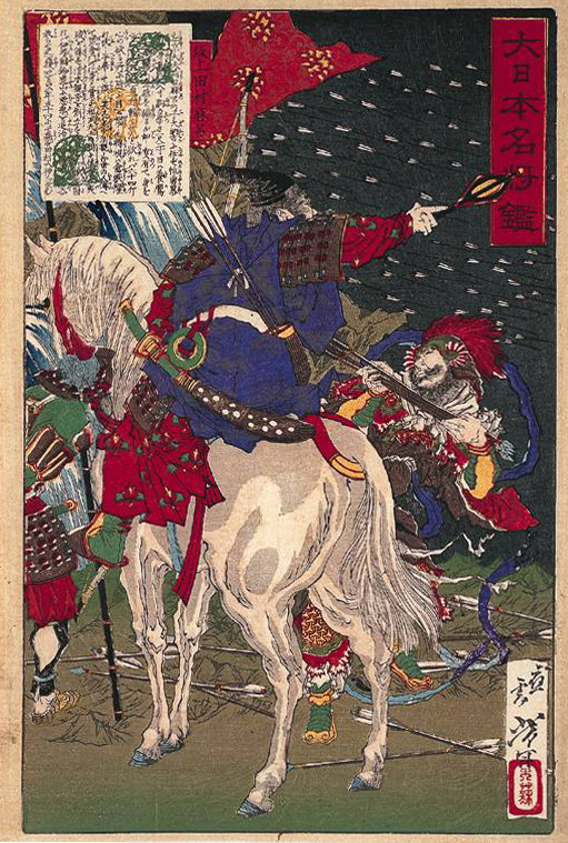 A print depicting Sakanoue no Tamuraro, commanding in the middle of battle